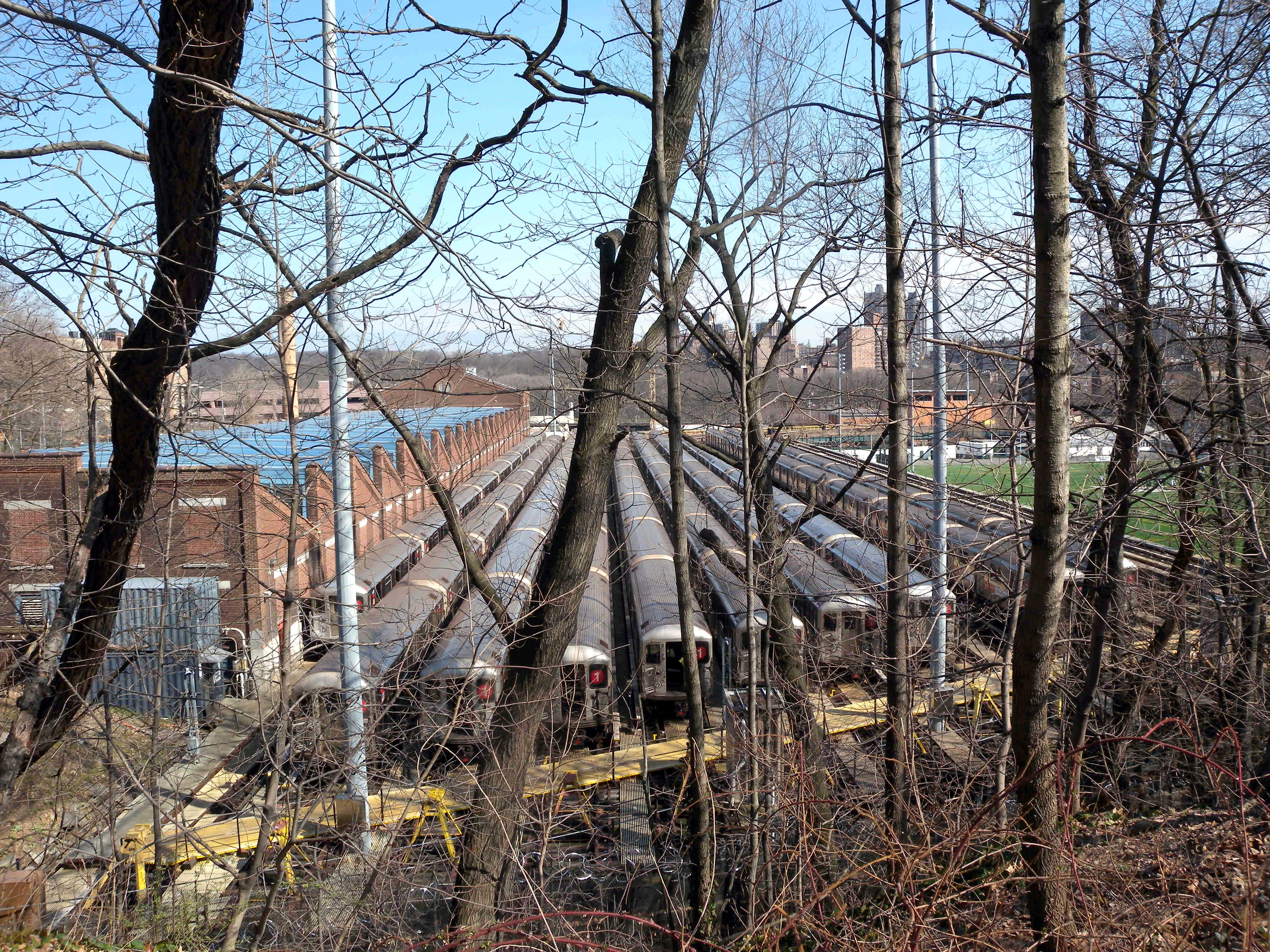 Looking southeast and down from Waldo Avenue at the IRT en:240th Street Yard west of the Cortlandt Line, full of idle 1 trains on a sunny midday.